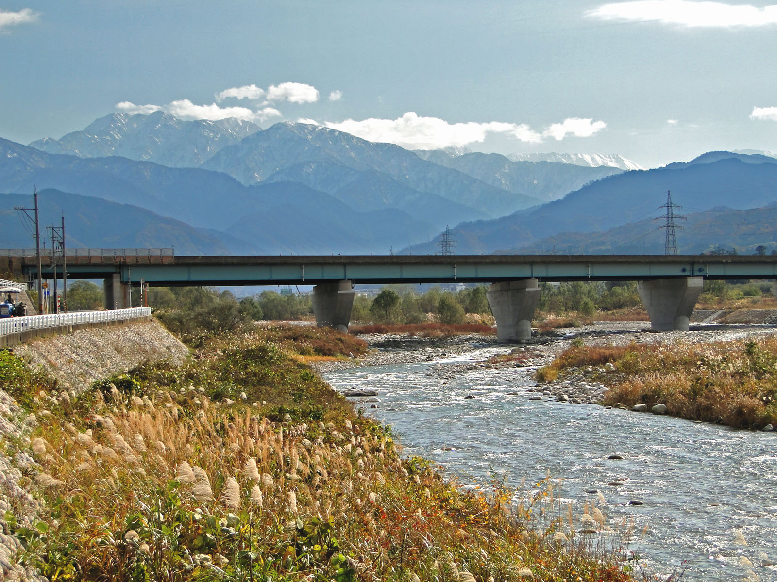 Katakaigawa(Toyama pre)＆ Hokuriku Jidousya-do,Kekati 3-Moutains.